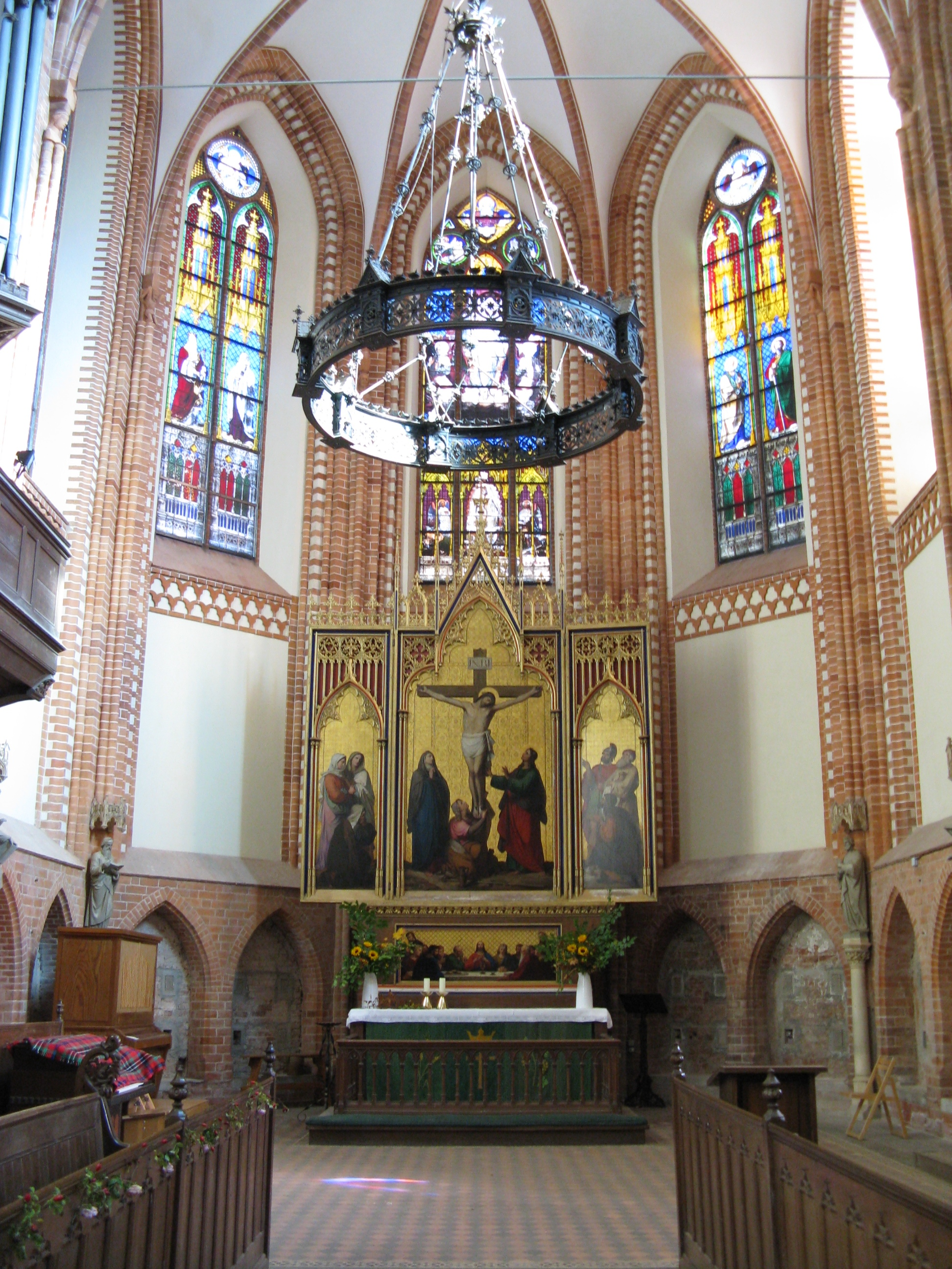 Altar in the church in the Monastery Dobbertin, disctrict Parchim, Mecklenburg-Vorpommern, Germany